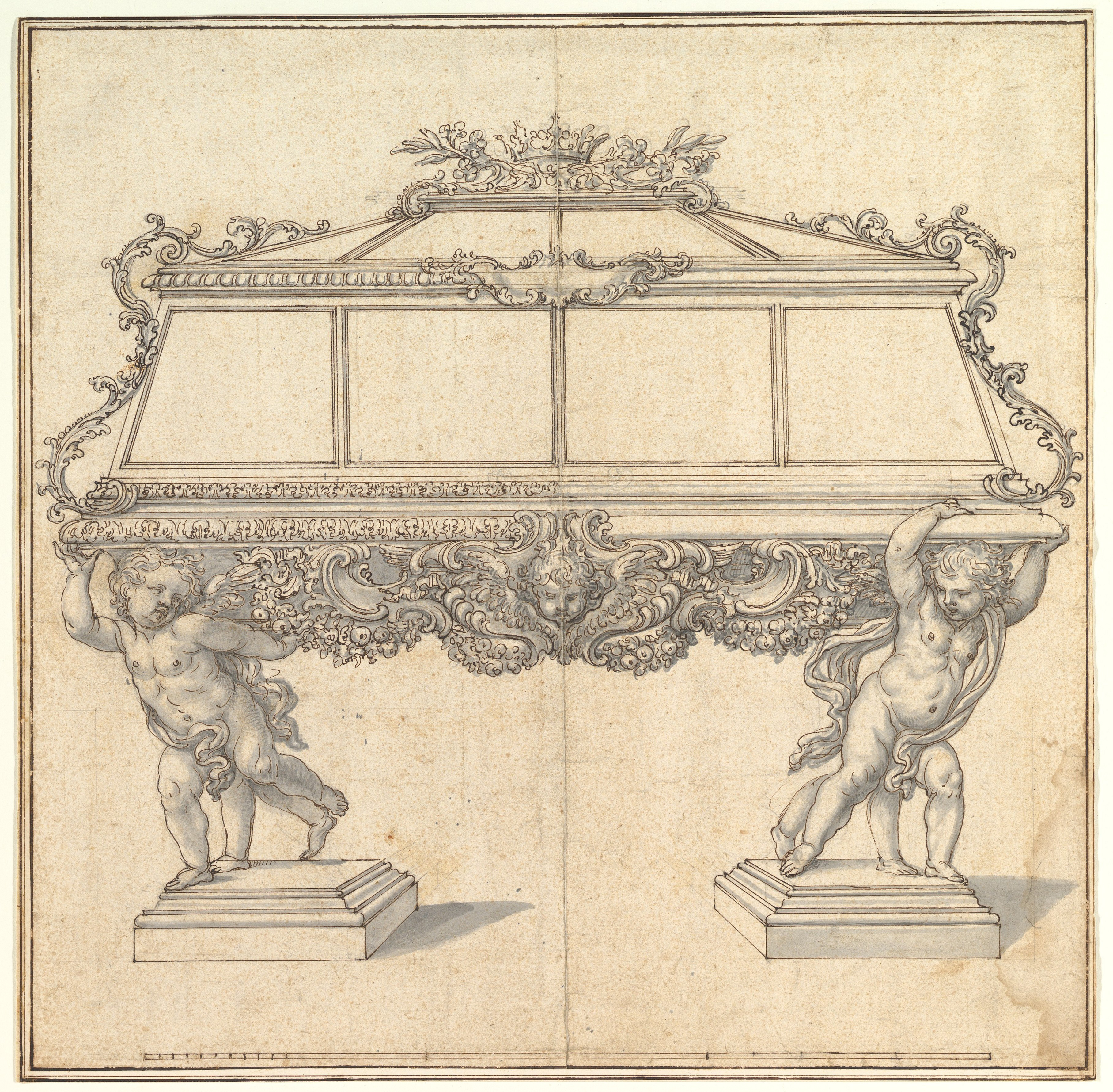 Design for a Sarcophagus Supported by Putti for the Church of S. Maria Maddalena de' Pazzi, Florence. Artist: Giovanni Battista Foggini 1652-1725. Pen and brown ink, brush and gray wash over black chalk or graphite, 14 x 14 1/2 in. (35.6 x 36.8 cm). The Metropolitan Museum of Art. Accession Number: 49.62.22